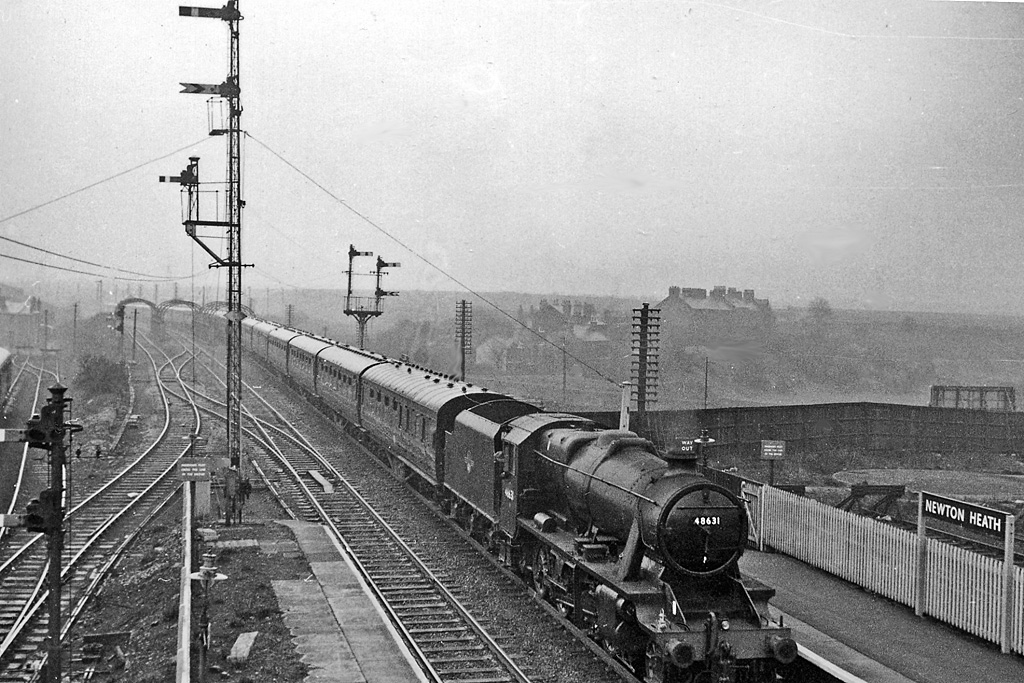 Westbound empty stock train at Newton Heath. View NE, towards Rochdale and West Yorkshire; ex-Lancashire & Yorkshire Calder Valley main line, Manchester - Rochdale - Sowerby Bridge - Bradford/Leeds, Wakefield etc. Newton Heath Station was closed on 1/1/66. The train is a long one and is headed by a Stanier 8F 2-8-0, No. 48631